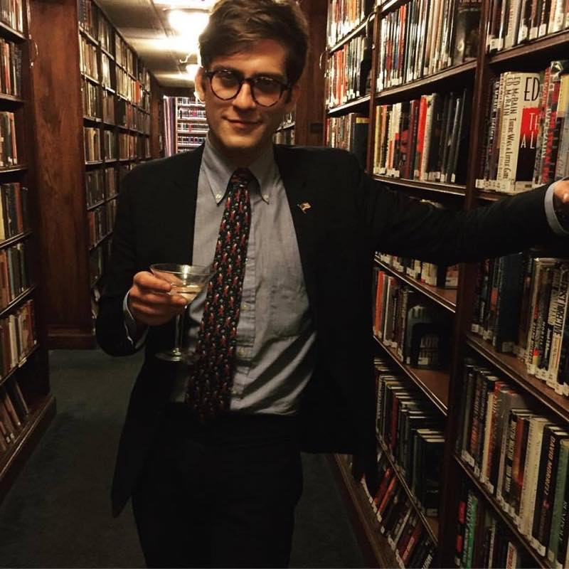 Lucian Wintrich at the Yale Club of New York City